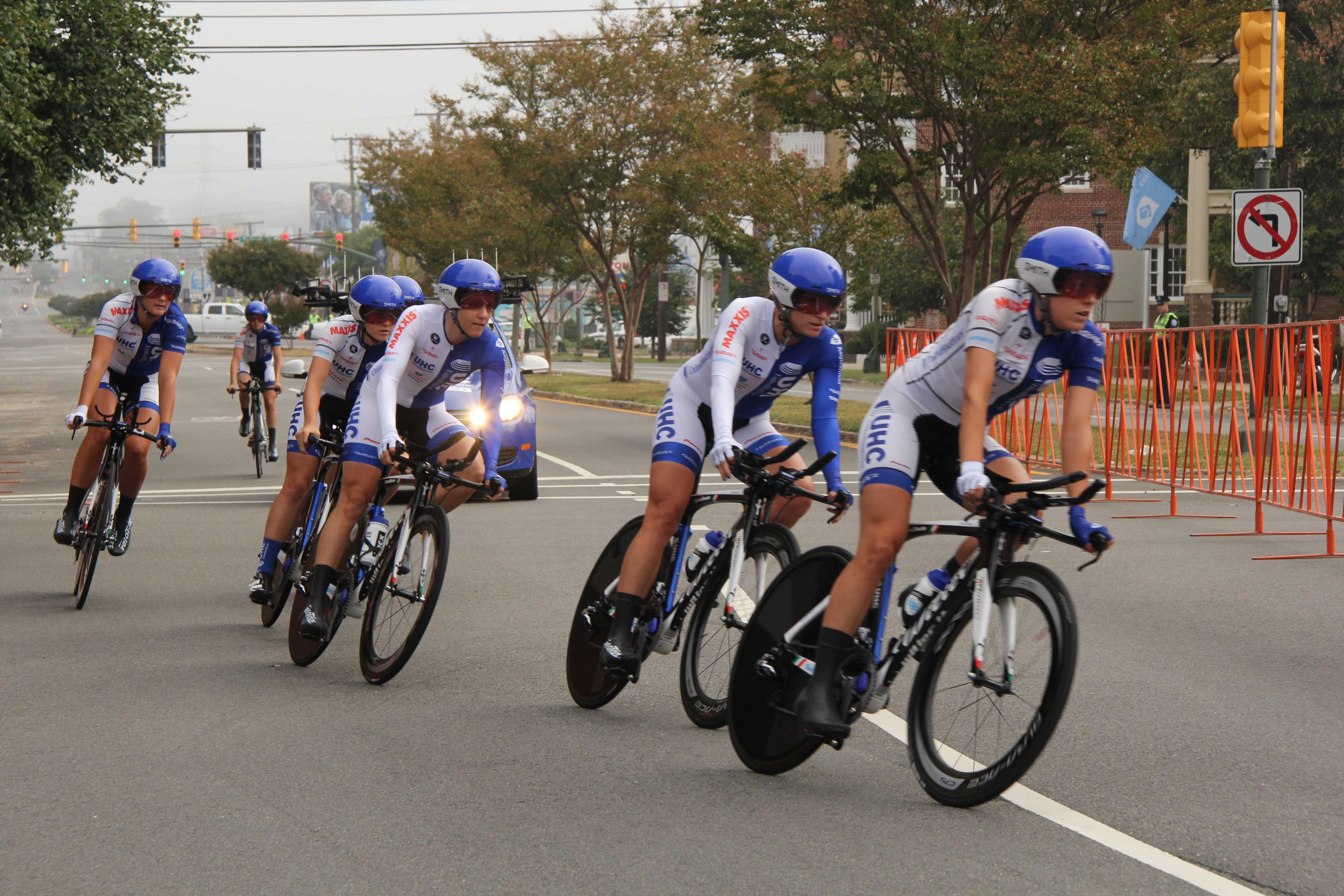 The world has come to Richmond. Welcome! Bienvenidos! Willkommen! 2015 UCI Road World Championships, in Richmond, United States